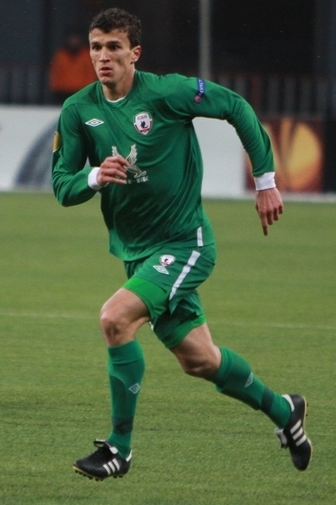 Roman Eremenko in FC Rubin Kazan